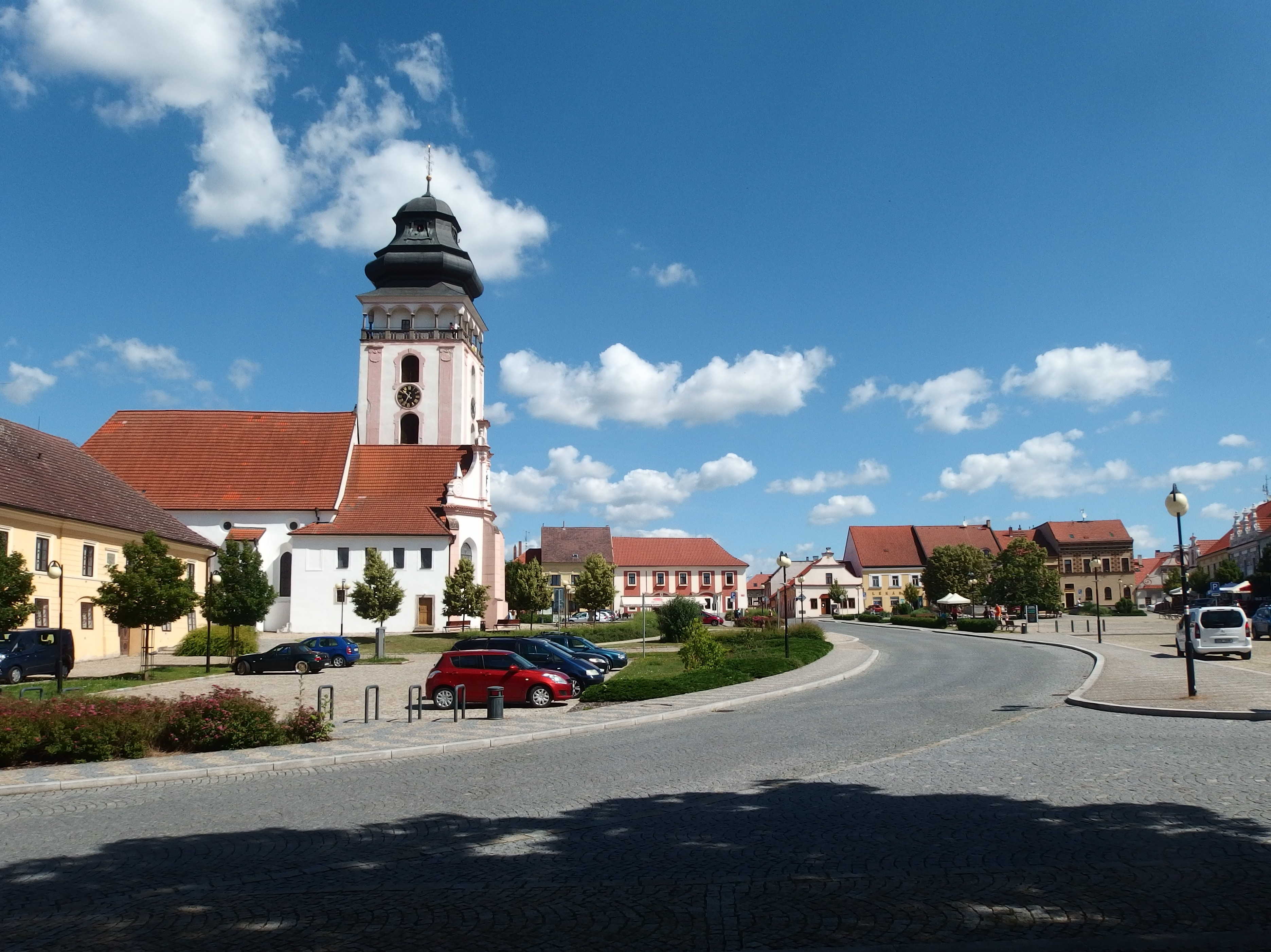 Bechyně, Tábor District, Czechia. Town square.